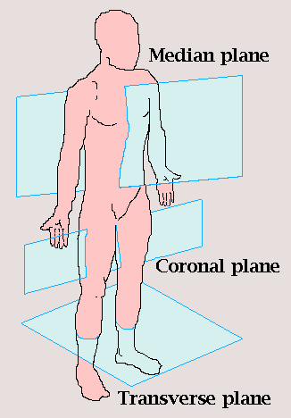 Anatomical planes